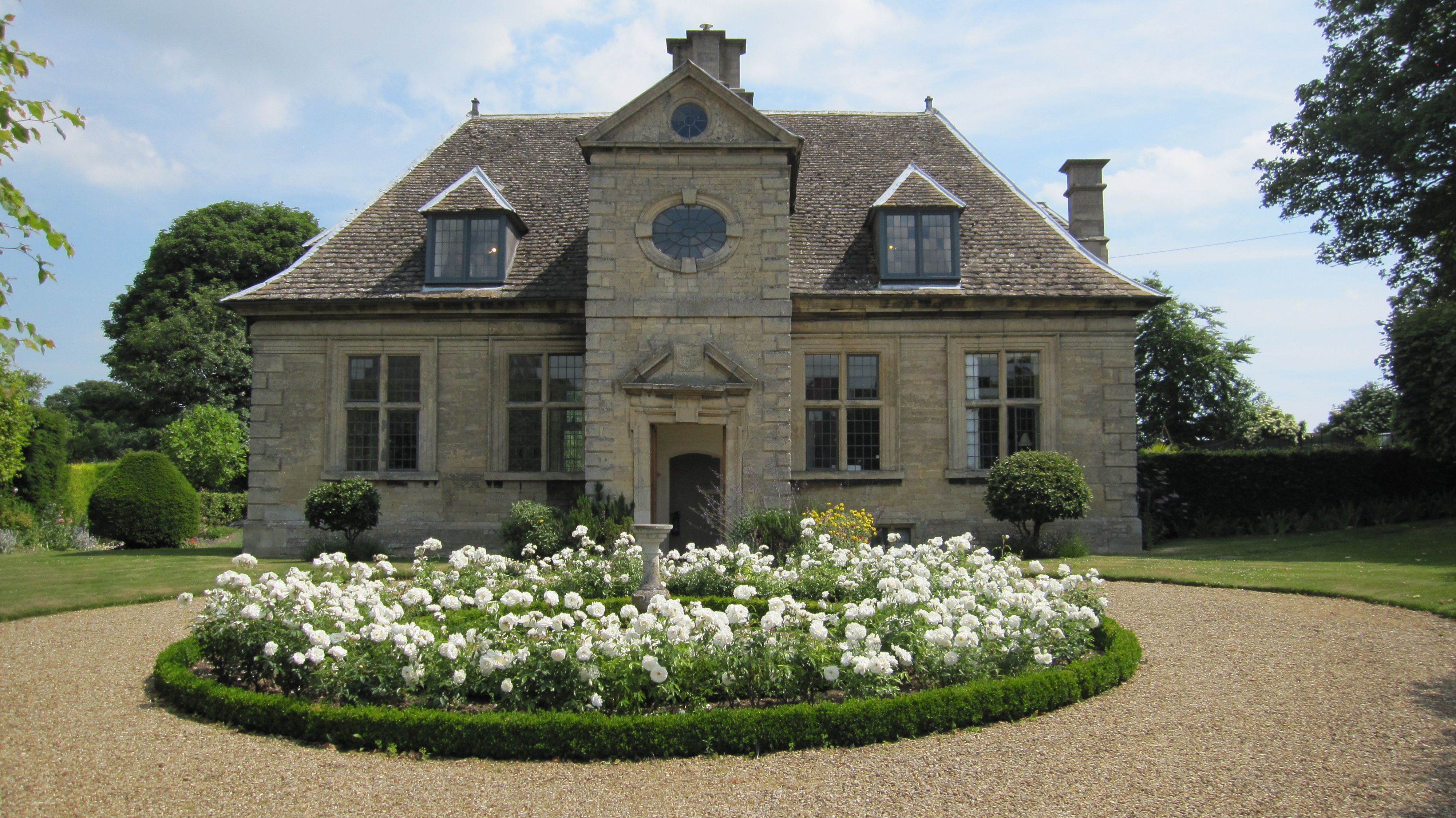 Charles Read Grammar School in summer